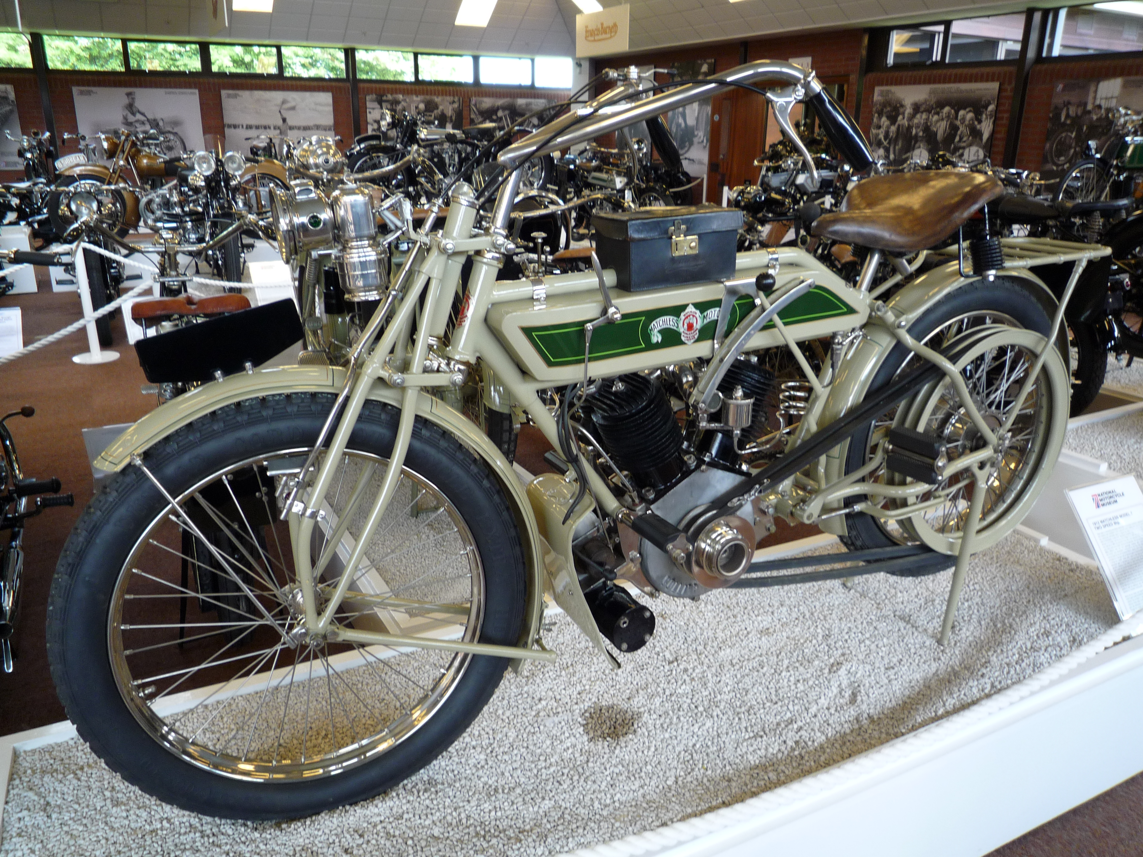 Matchless motorcycle 1912 at the National Motorcycle Museum